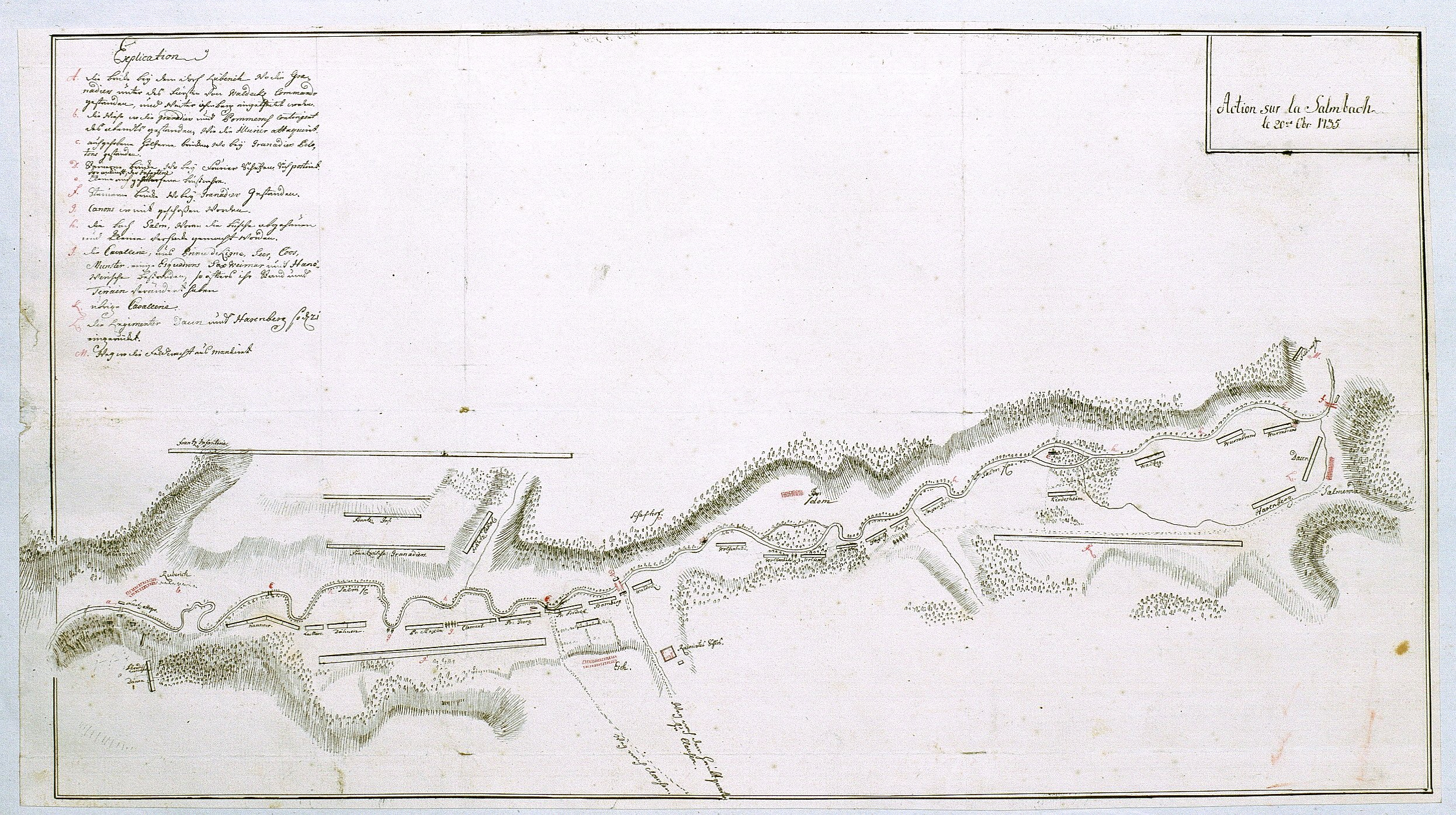 A French military map depicting the 1735 Battle of Clausen.